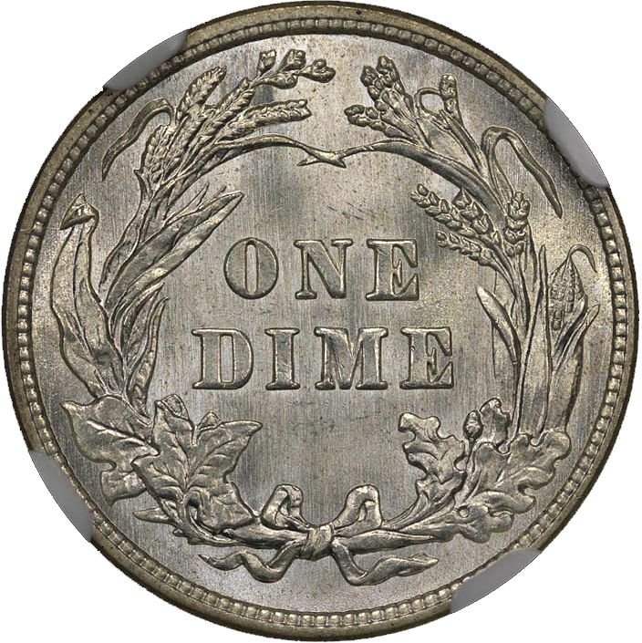 The reverse of the Barber dime, this example minted in 1914. This particular coin is graded MS64+ by the Numismatic Guaranty Corporation (NGC) and is housed in an EdgeView holder (one can see the minimally viewable white prongs holding the edge of the coin).